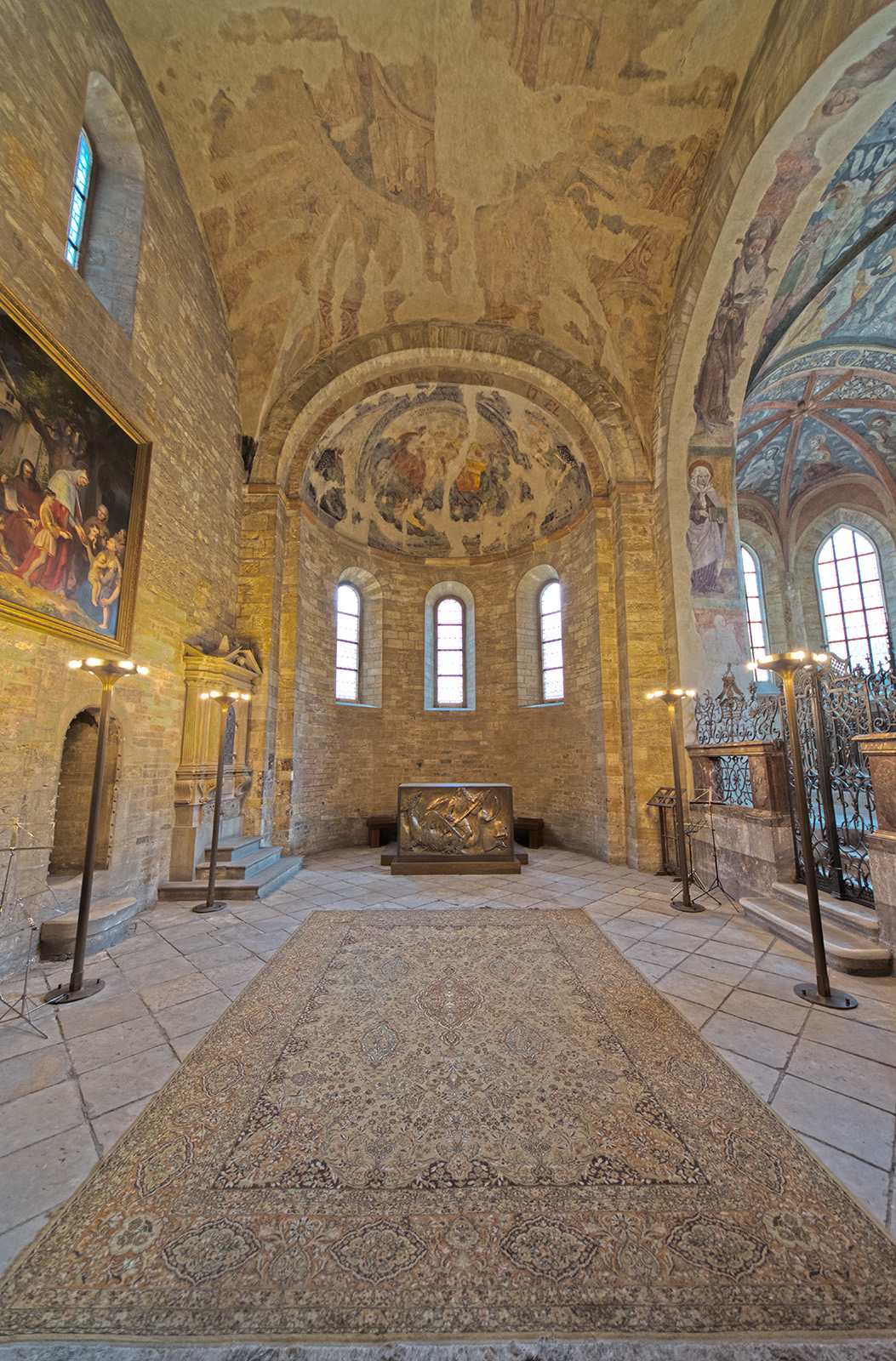 St. George's Basilica (HDR)